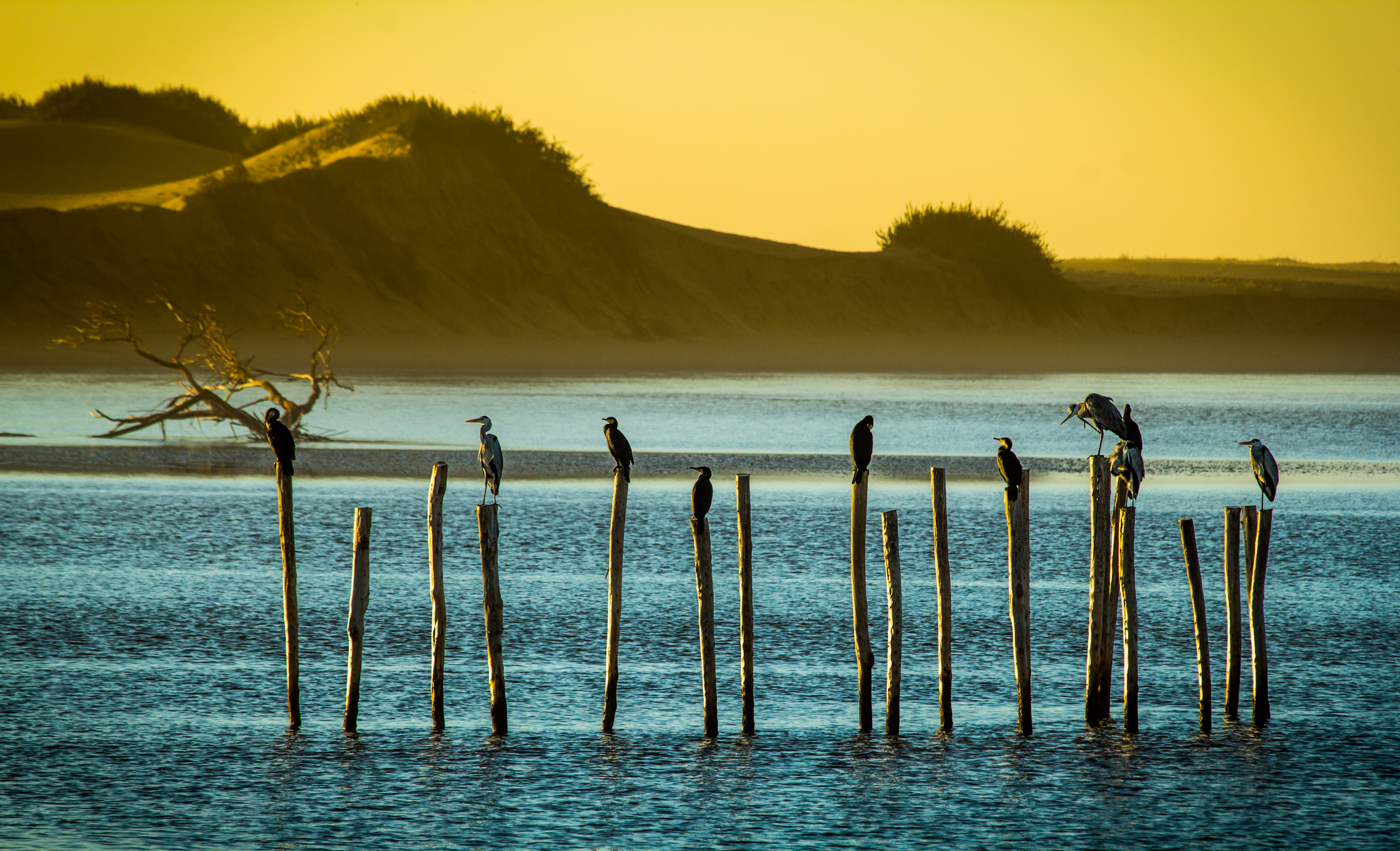 Home of rare bird species. The national park of Massa is located in the south of Agadir, and holds some of the most amazing landscapes and many rare animal species.